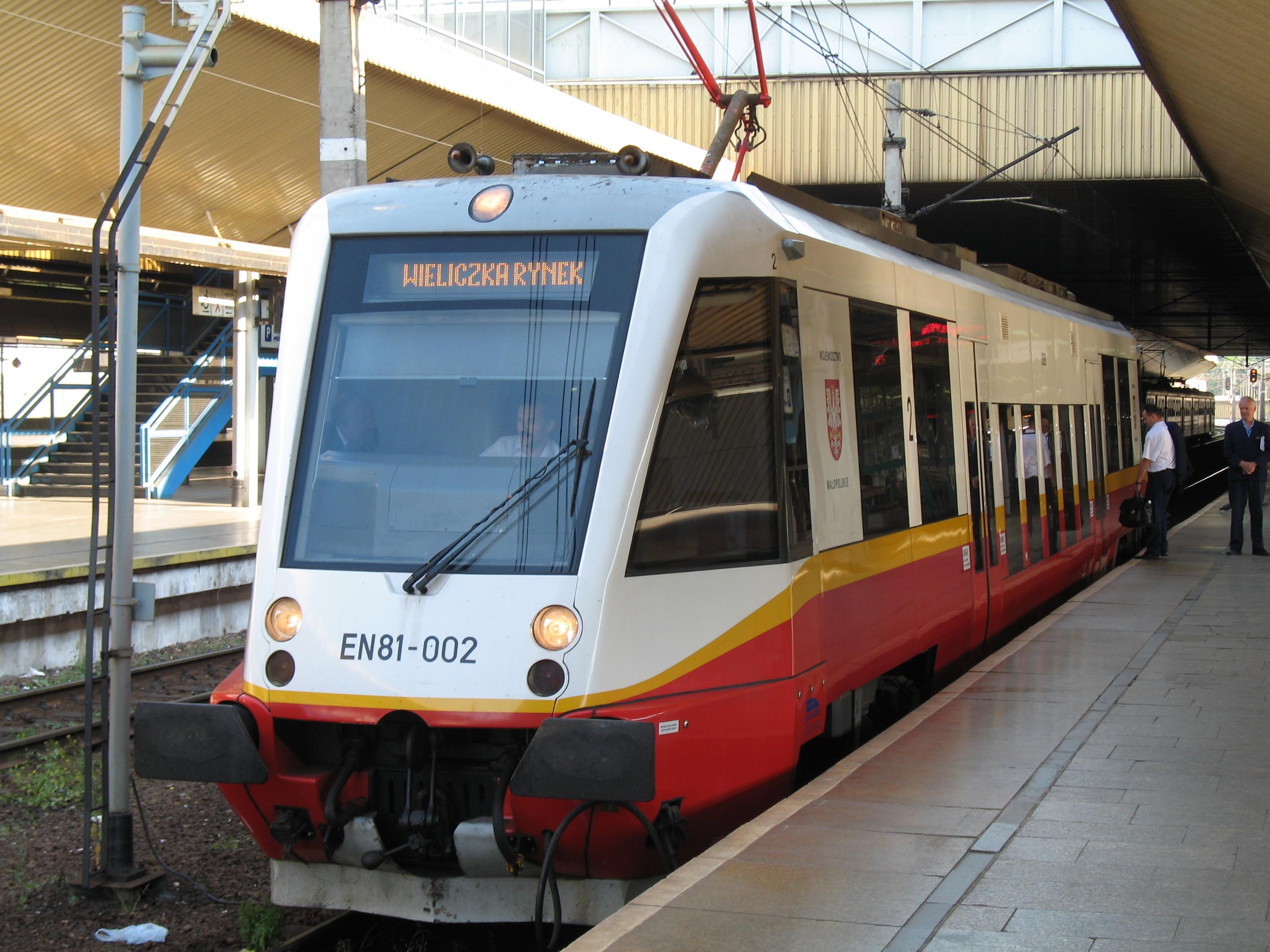 PESA EN81-002 train in Kraków, Poland.